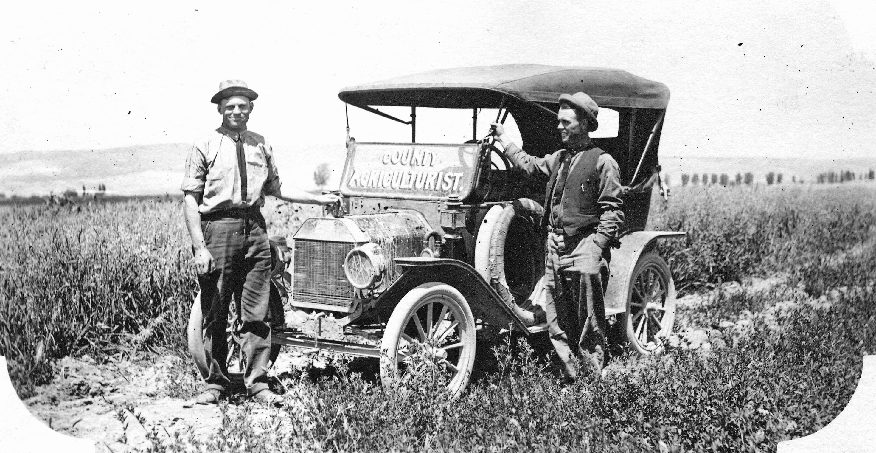 Original Collection: Harriet's Collection Item Number: HC0969 Agents 1915 You can find this image by searching for the item number by clicking here. Want more? You can find more digital resources online. We're happy for you to share this digital image within the spirit of The Commons; however, certain restrictions on high quality reproductions of the original physical version may apply. To read more about what “no known restrictions” means, please visit the Special Collections & Archives website, or contact staff at the OSU Special Collections & Archives Research Center for details.